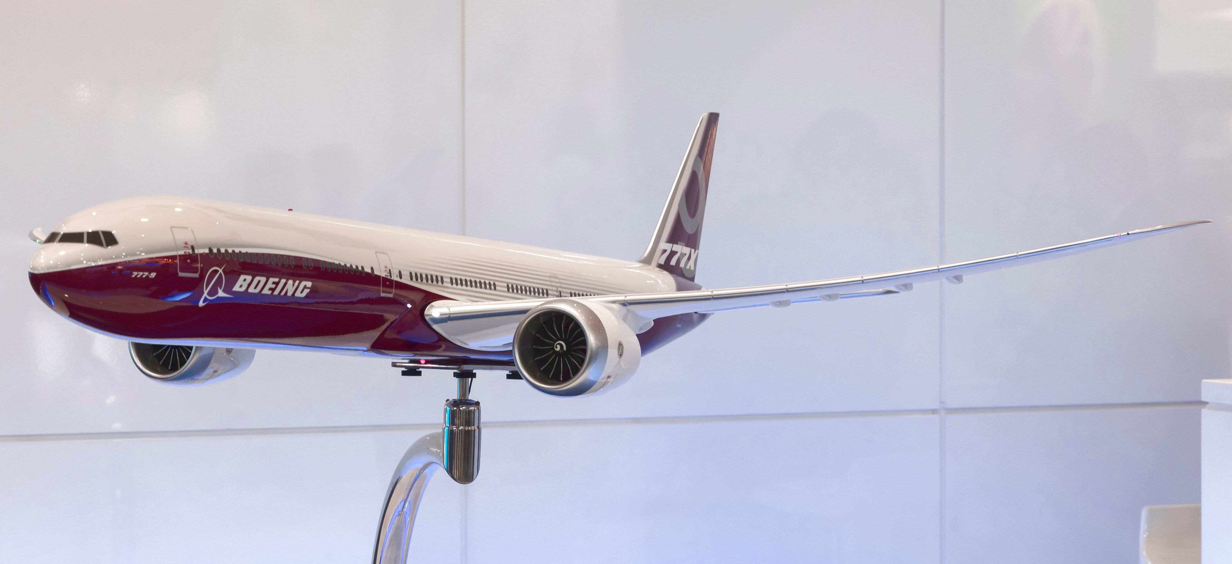 Passenger Experience Week 2018, Hamburg